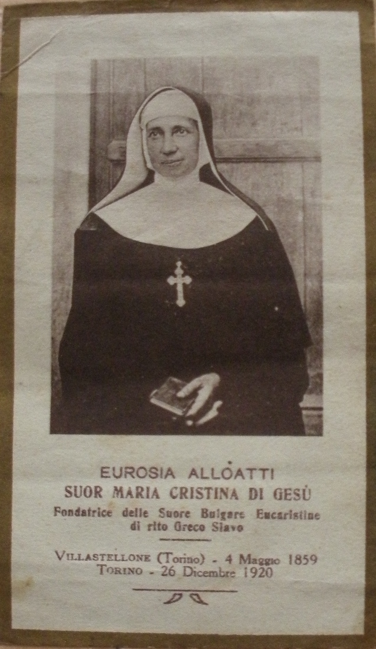 Eurosia Alloatti